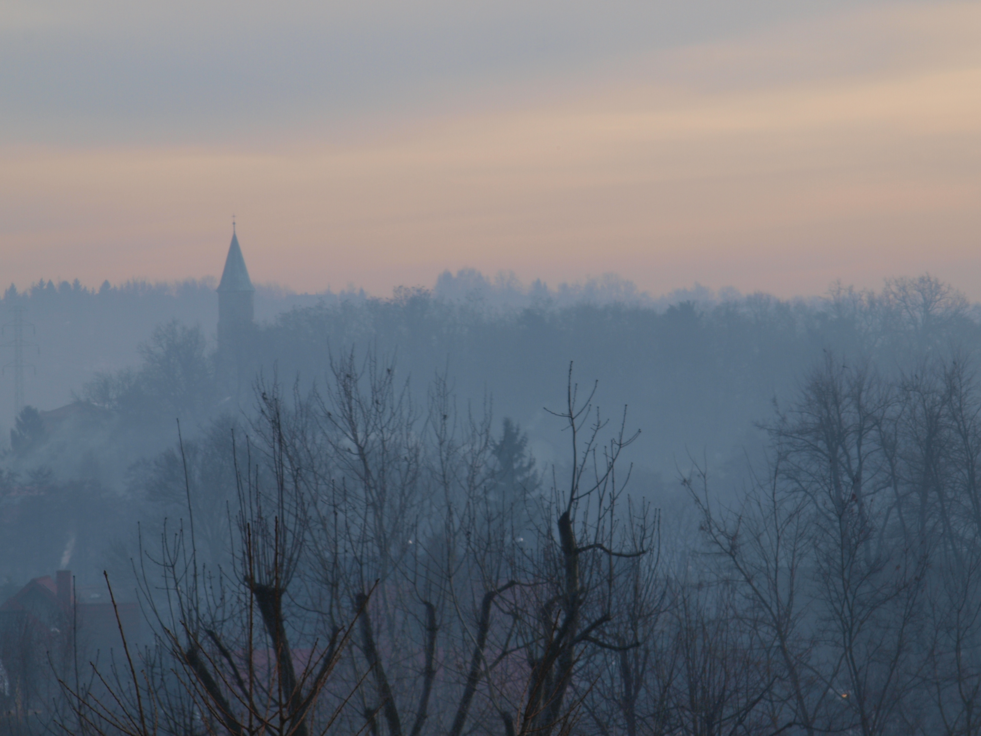 Parish Church of the Piaski Wielkie (Great Sands) in Cracow - the view from the Kozłówek housing